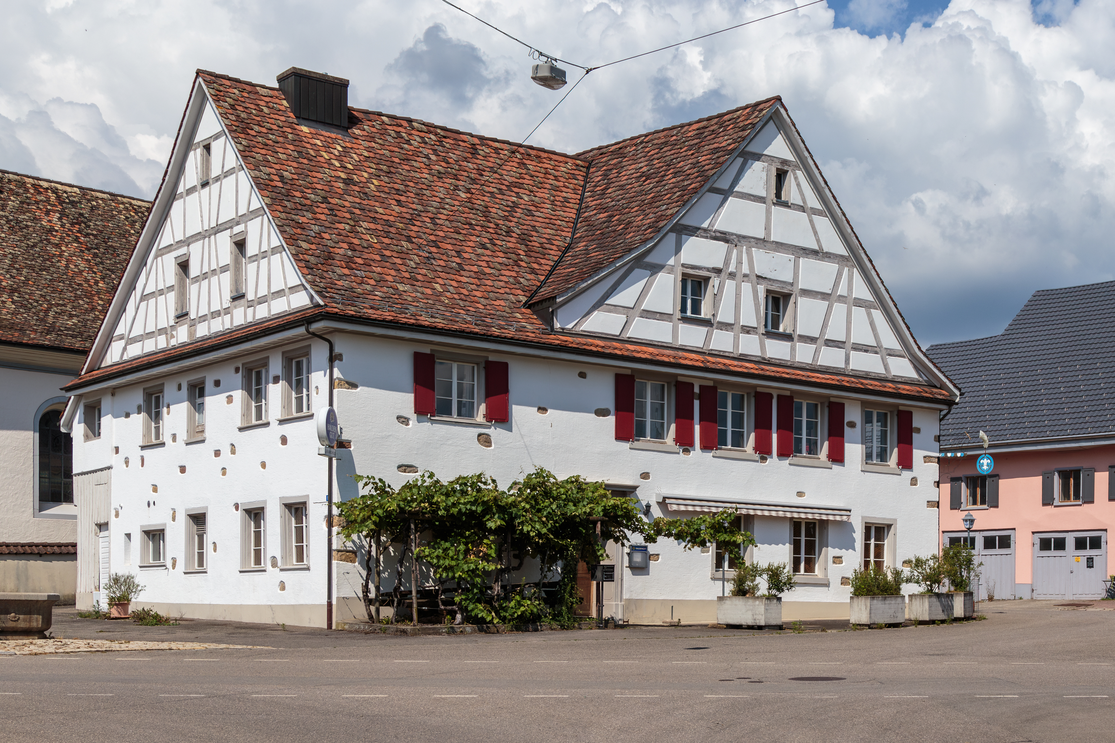 Former Inn "Gmaandhuus" in Oberhallau, canton of Schaffhausen, Switzerland